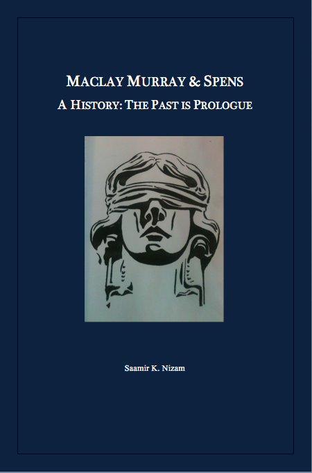 A history of the firm from 1871 - 2017.